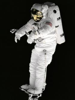 Program: Shuttle Mission: STS-57 Date Taken: June 25, 1993 Film Type: DIGITAL This image and description were taken from NASA's Great Images in NASA, or GRIN database. This collection can be accessed at This image is available under NASA's image copyright policy, free for use as long as NASA is credited as the source, and the image is not used to imply endorsement by NASA. Contents 1 Title: 2 Summary 3 Subject Terms: 4 Reference Numbers: 5 Licensing 6 Original upload log Title: Wisoff on the Arm Summary Against the blackness of space, Mission Specialist Peter J.K. Wisoff, wearing an extravehicular mobility unit, stands on a Portable Foot Restraint (PFR), Manipulator Foot Restrait (MFR) attached to the End Effector of the Remote Manipulator System (RMS), colloquially known as the "robot arm". Wisoff is being maneuvered above Endeavour's payload bay as part of Detailed Test Objective (DTO) extravehicular activity procedures. DTO results will assist in refining several procedures being developed to service the Hubble Space Telescope on mission STS-61 in December 1993. The Earth's surface and Discovery's payload bay are reflected in Wisoff's helmet visor. Subject Terms: ASTRONAUTS ENDEAVOUR (ORBITER) EXTRAVEHICULAR ACTIVITY EXTRAVEHICULAR MOBILITY UNITS SPACE SHUTTLE MISSION 57 HUBBLE Reference Numbers: Center: Johnson Space Center Center Number: STS057-89-067 GRIN DataBase Number: GPN-2000-001069